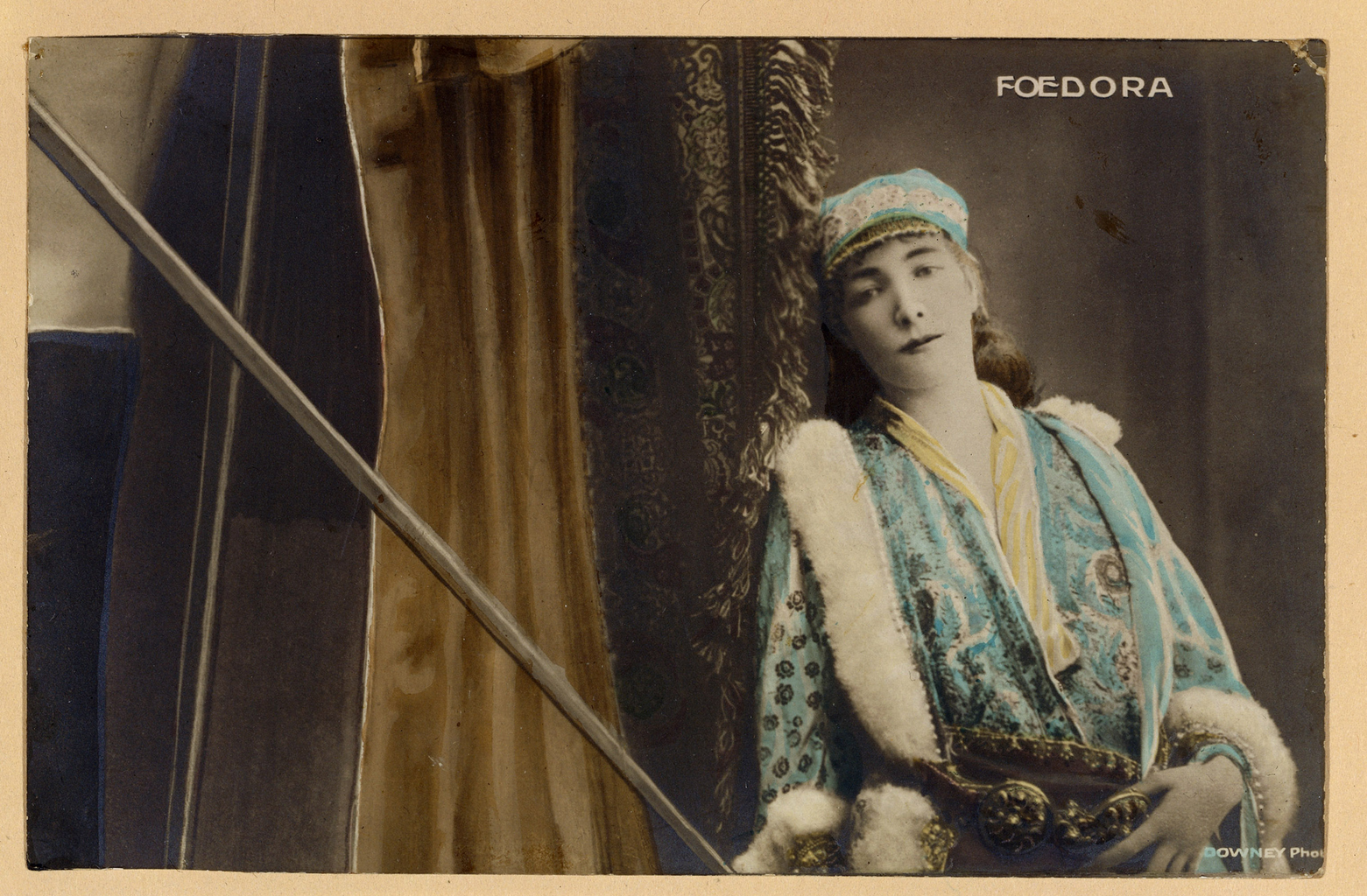 Postcard of Sarah Bernhardt in Fedora